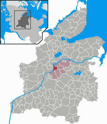 Locator maps of municipalities in Schleswig-Holstein - District Rendsburg-Eckernförde